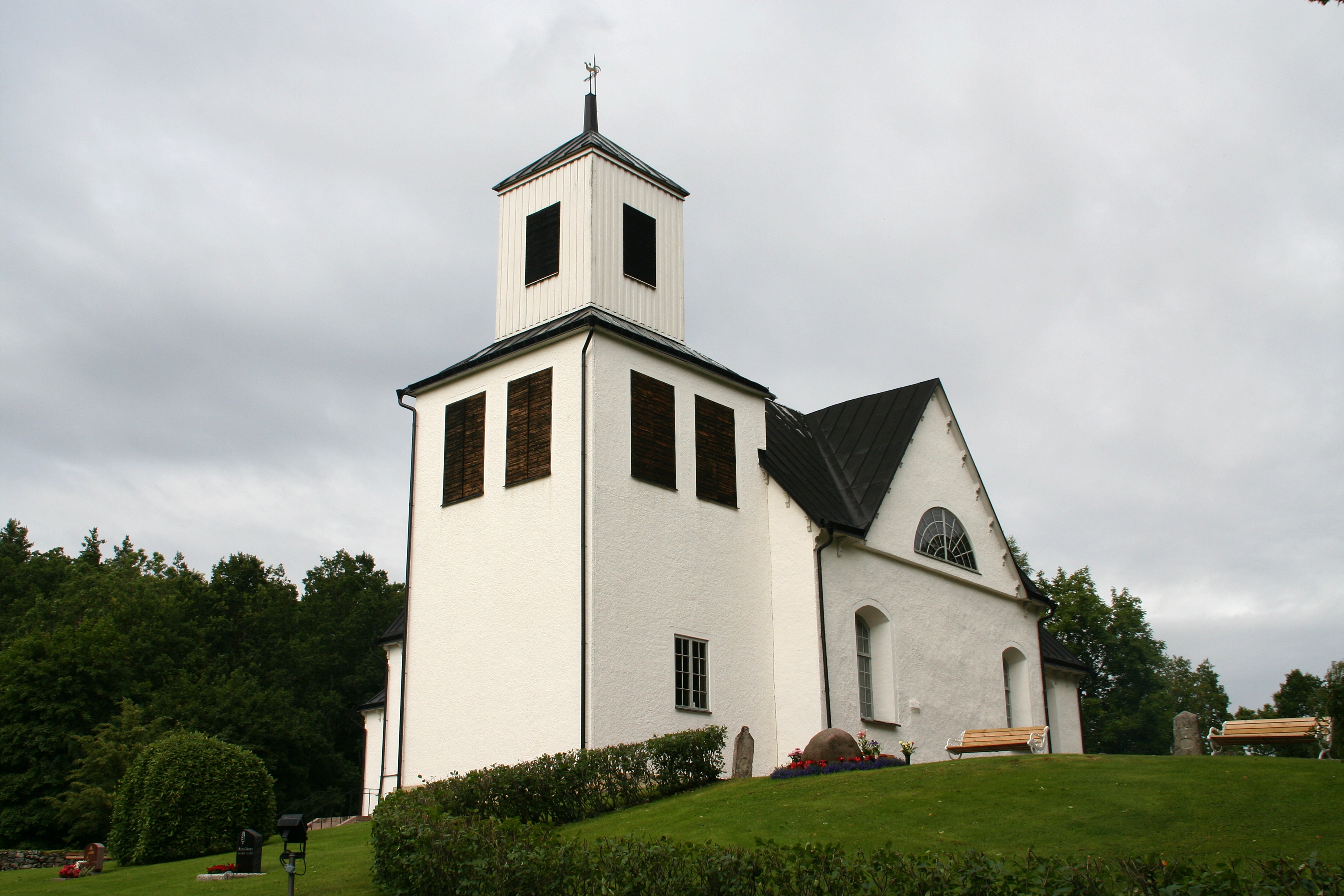 Näsby Church, Vetlanda, Sweden.